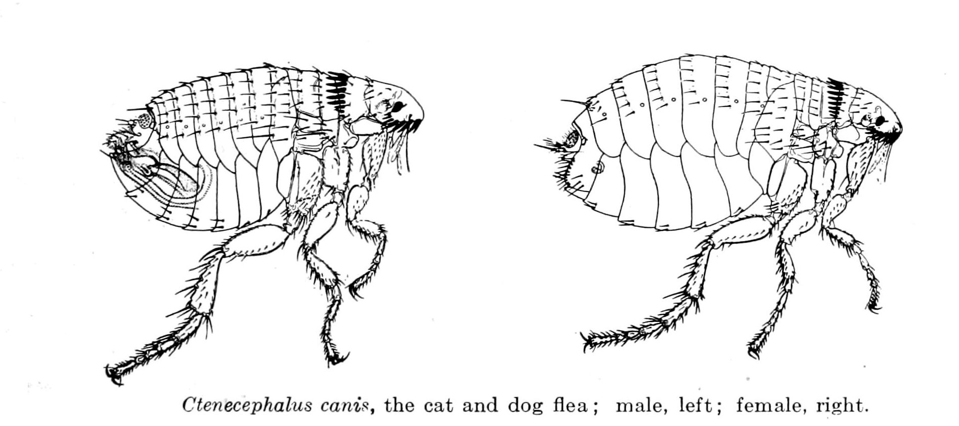 Ctenecephalus canis = Ctenocephalides canis The Internet Archive notes it as out of copyright